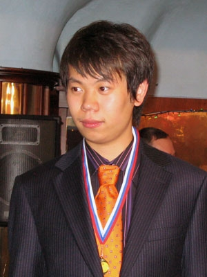 Wang Hao, chessplayer